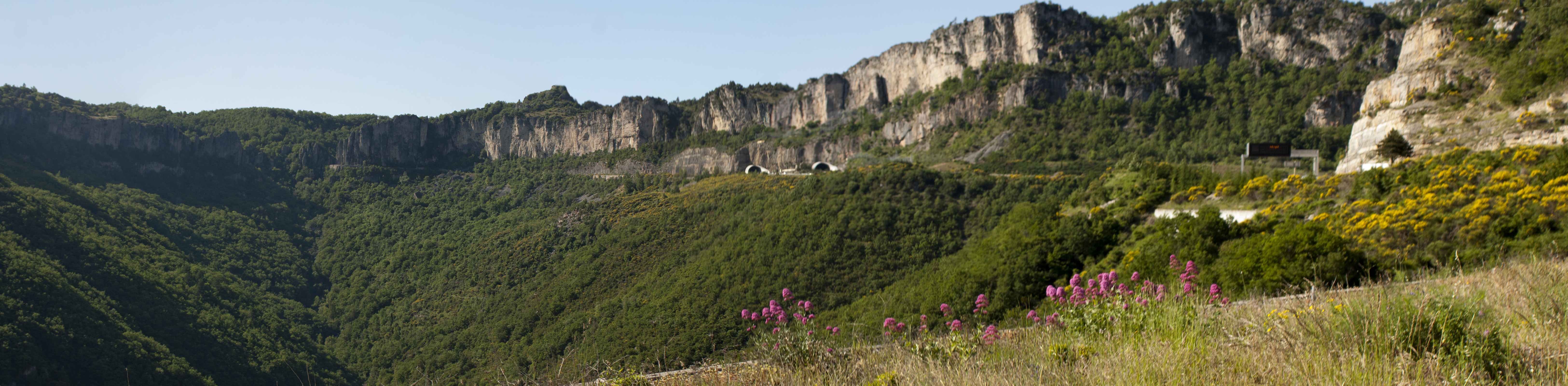 The cliffs of the Pas de l'escalette mark the southern limit of the Larzac plateau. View from the belvédère of Pégairolles-de-l'Escalette.